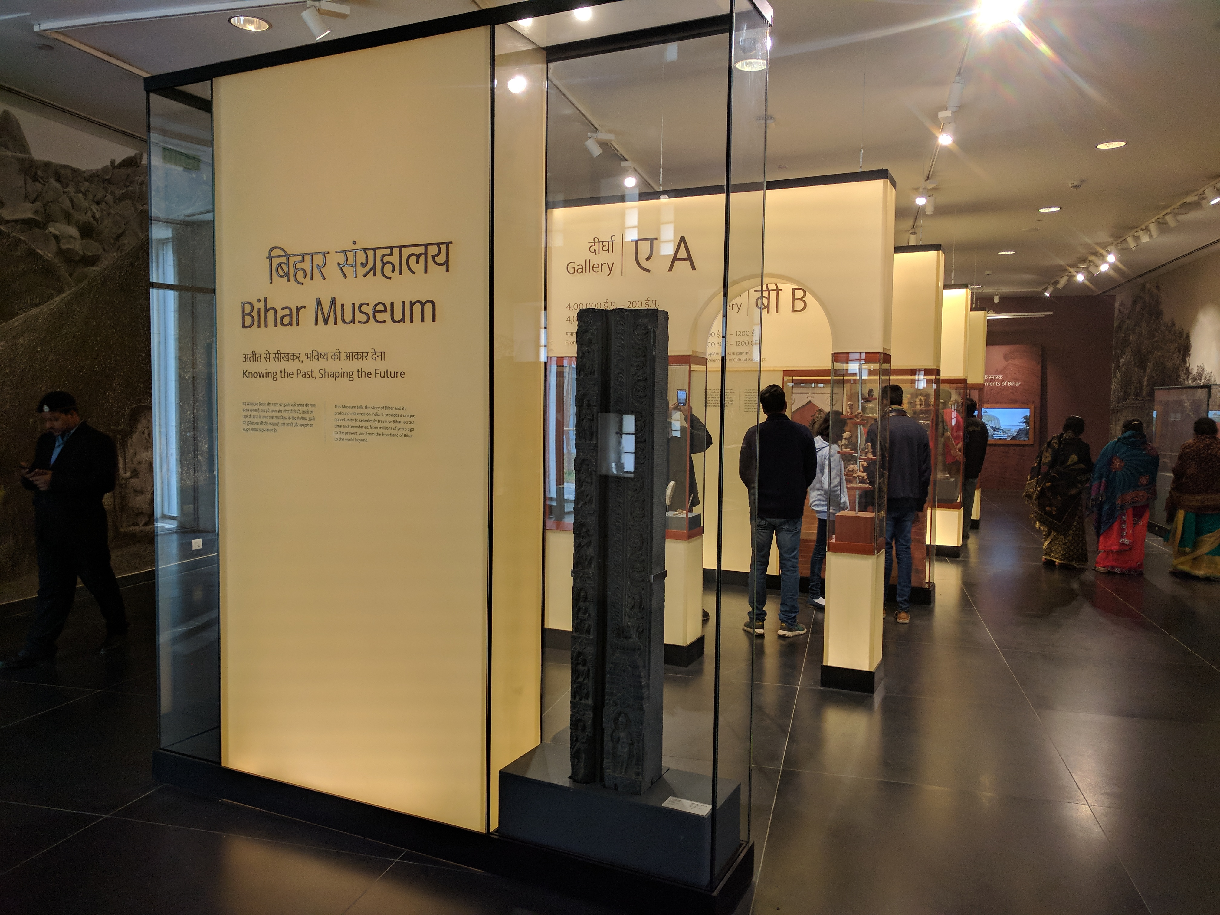 Inside Bihar Museum